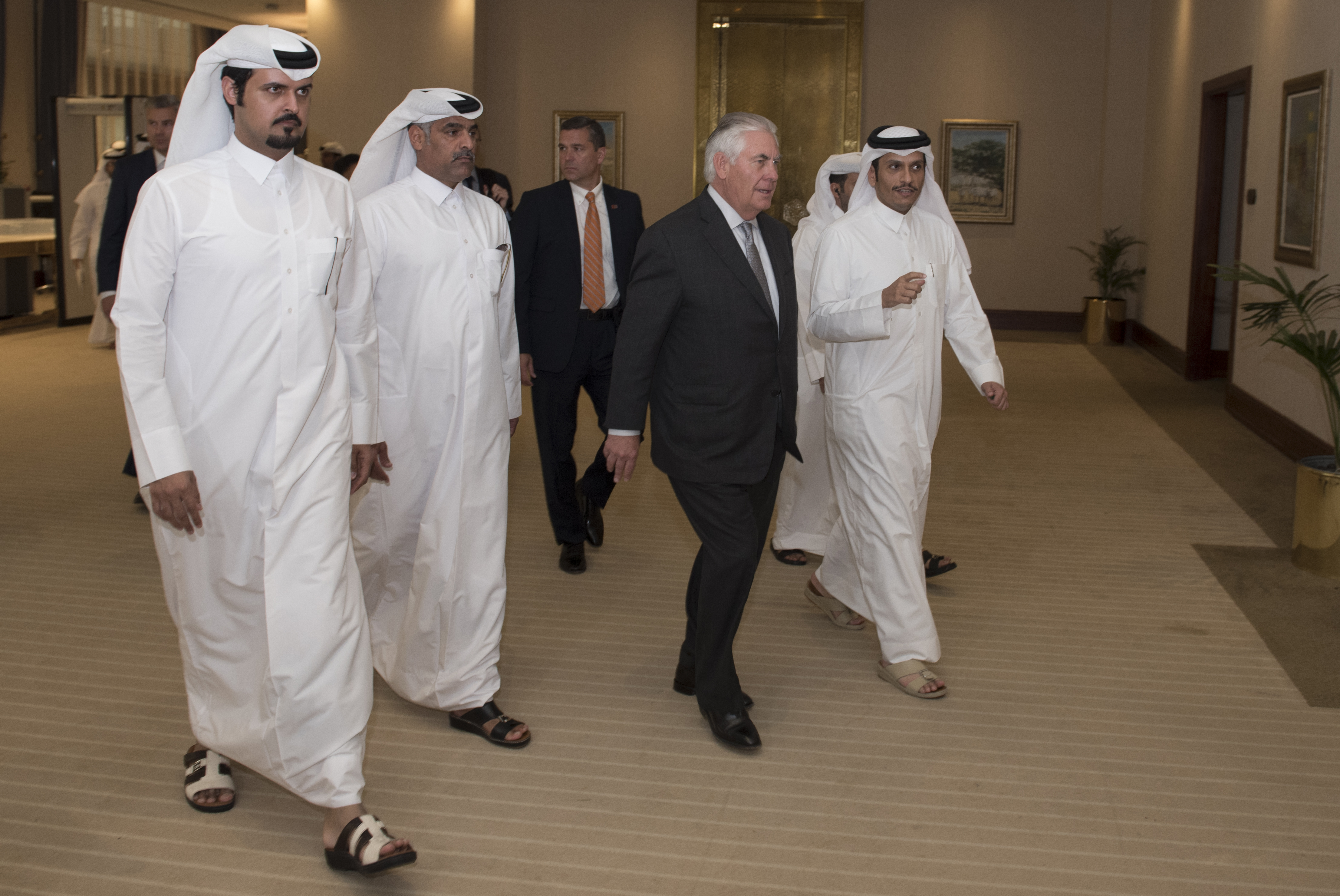 U.S. Secretary of State Rex Tillerson is escorted to his meeting with the Emir of Qatar, His Highness Sheikh Tamim Bin Hamad Al Thani, at the Sea Palace in Doha, Qatar, on July 11, 2017. [State Department photo/ Public Domain]